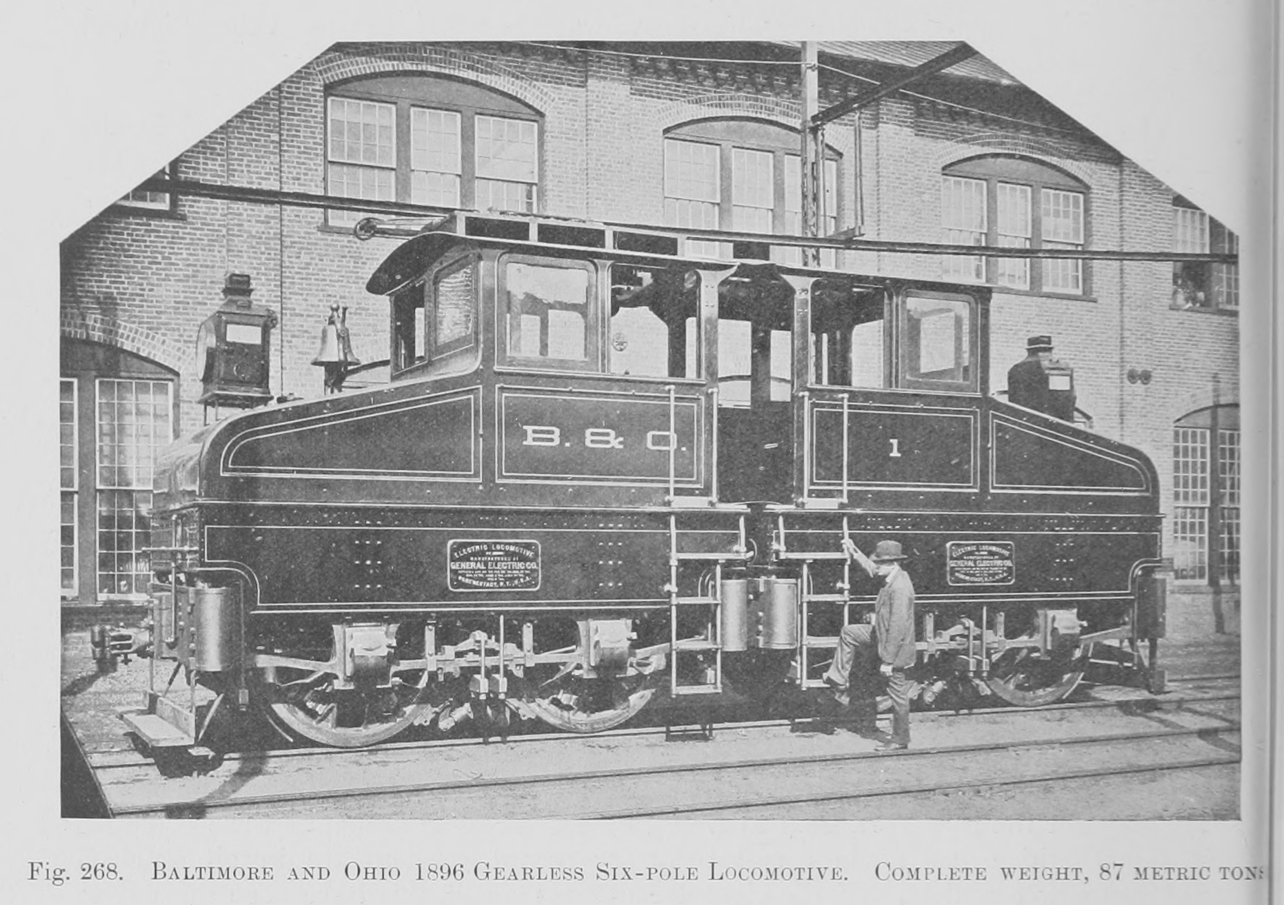 see image title - first number is figure or diagram number. See list of illustrations in source for page number in source - relevent text content is near to image in the source